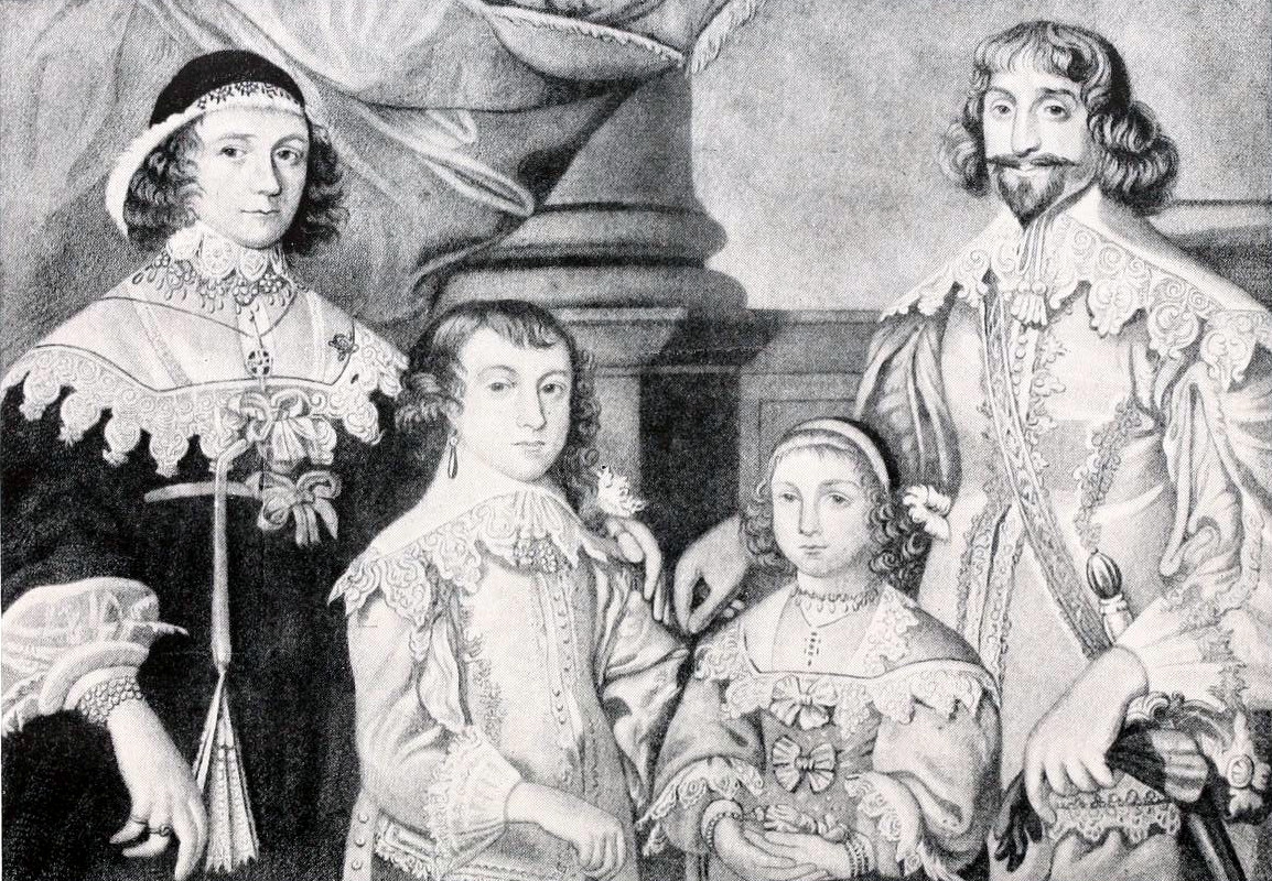 Sir Francis Ottley and his family. Wife: Lucy. Children: Richard and Mary. Sir Francis was the royalist military governor of Shrewsbury at the beginning of the English Civil War. Photographic reproduction of an engraving made c.1825 from a 1636 oil painting by Petrus Troueil, from a work published pre-1923. The original oil painting, previously in private hands, was purchased by Shrewsbury Museums Service in 1993/94 with assistance from The National Art Collections Fund, the V&A Purchase Grant Fund and the Friends of Shrewsbury's Borough Museums.